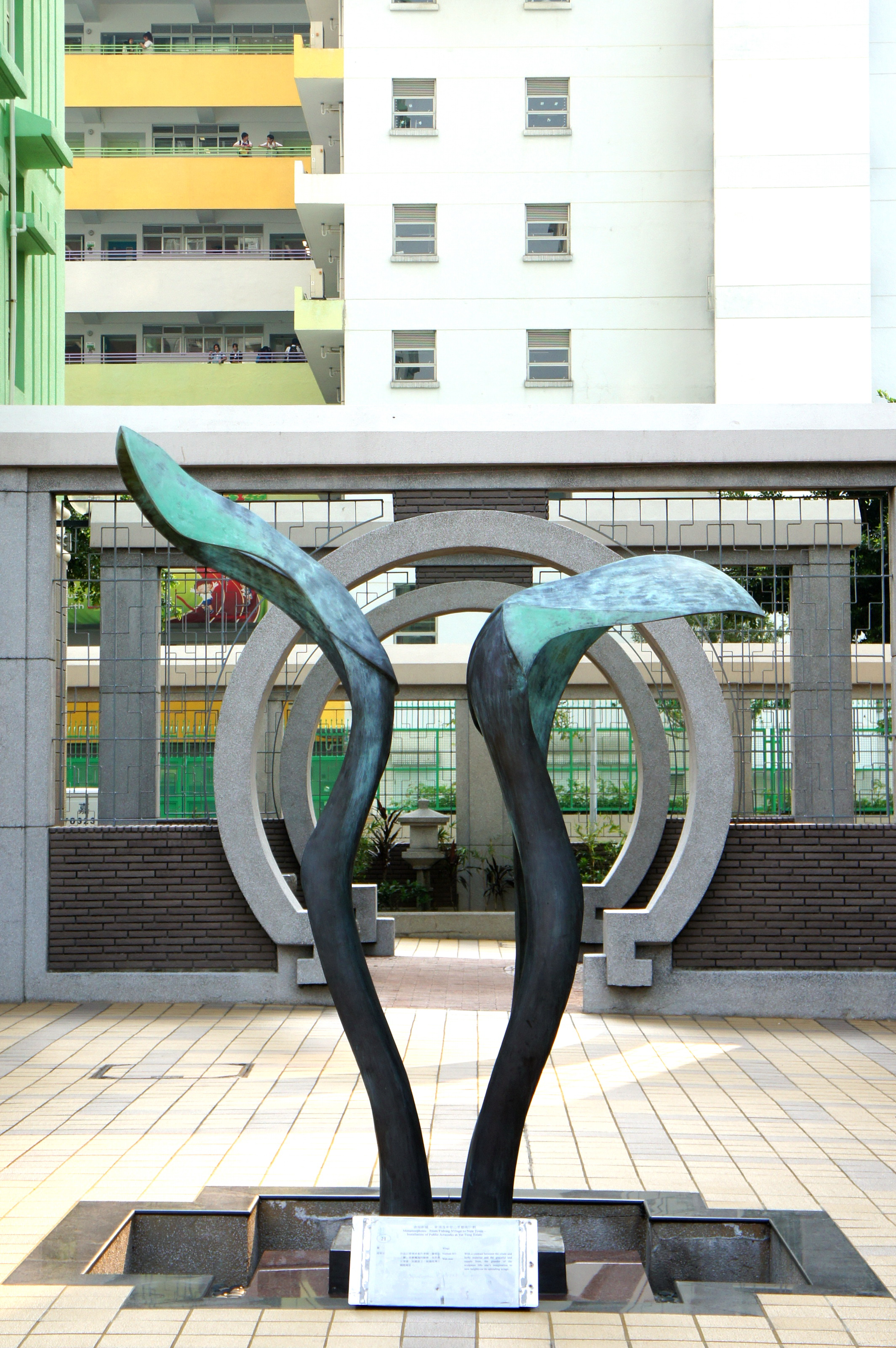 "Wings" - one of the public artworks in the series Metamorphosis: From Fishing Village to New Town, Yat Tung Estate, Tung Chung, New Territories, Hong Kong.